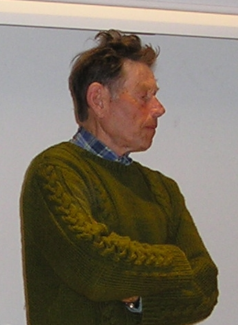 Finnish author and environmentalist Pentti Linkola (2006). Author: Olli Hämäläinen. Uploaded with permission.